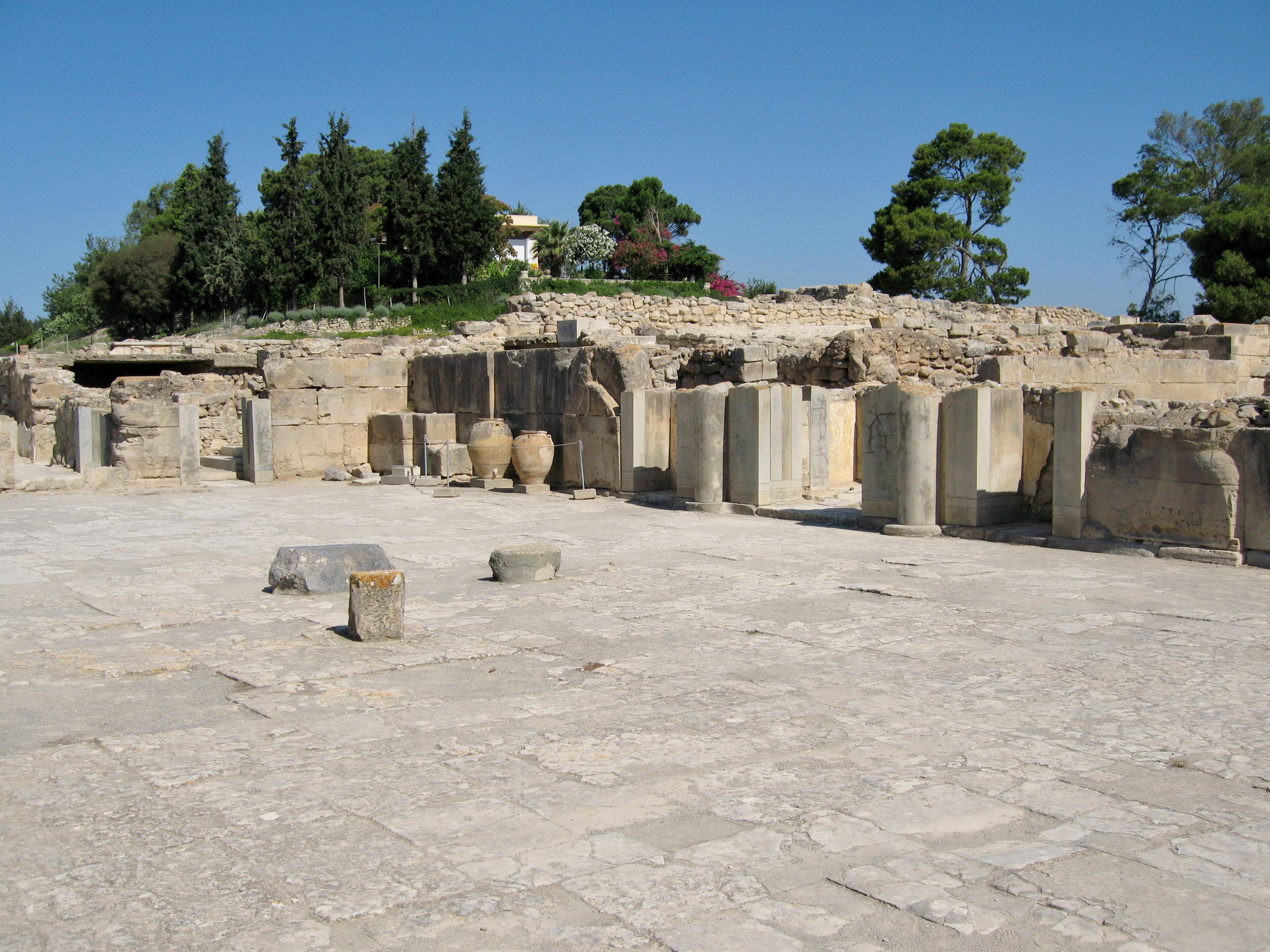 Phaistos, Crete, Greece